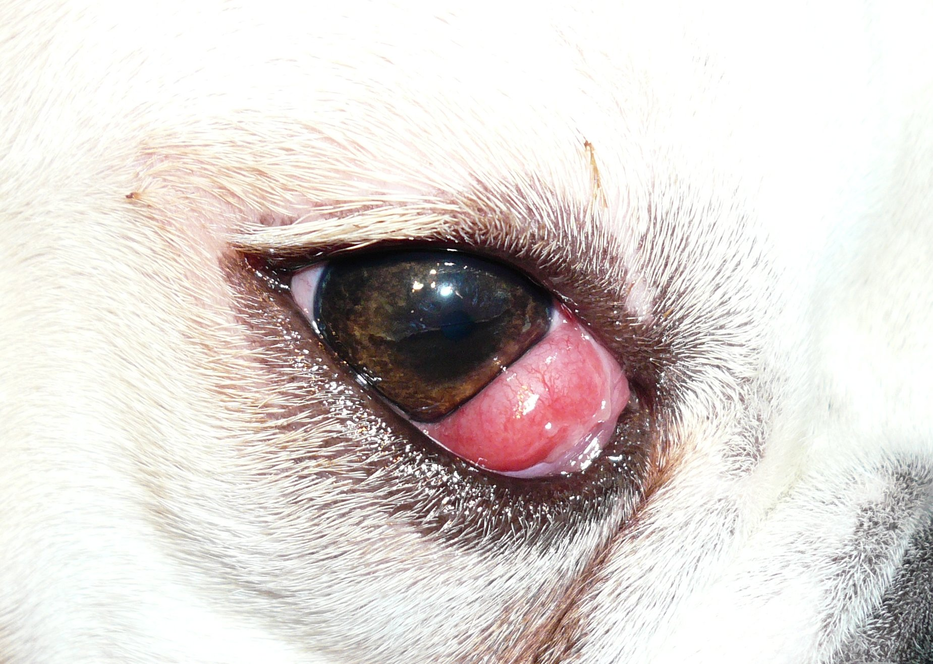 Prolapsed gland of the third eyelid (cherry eye) in a dog.